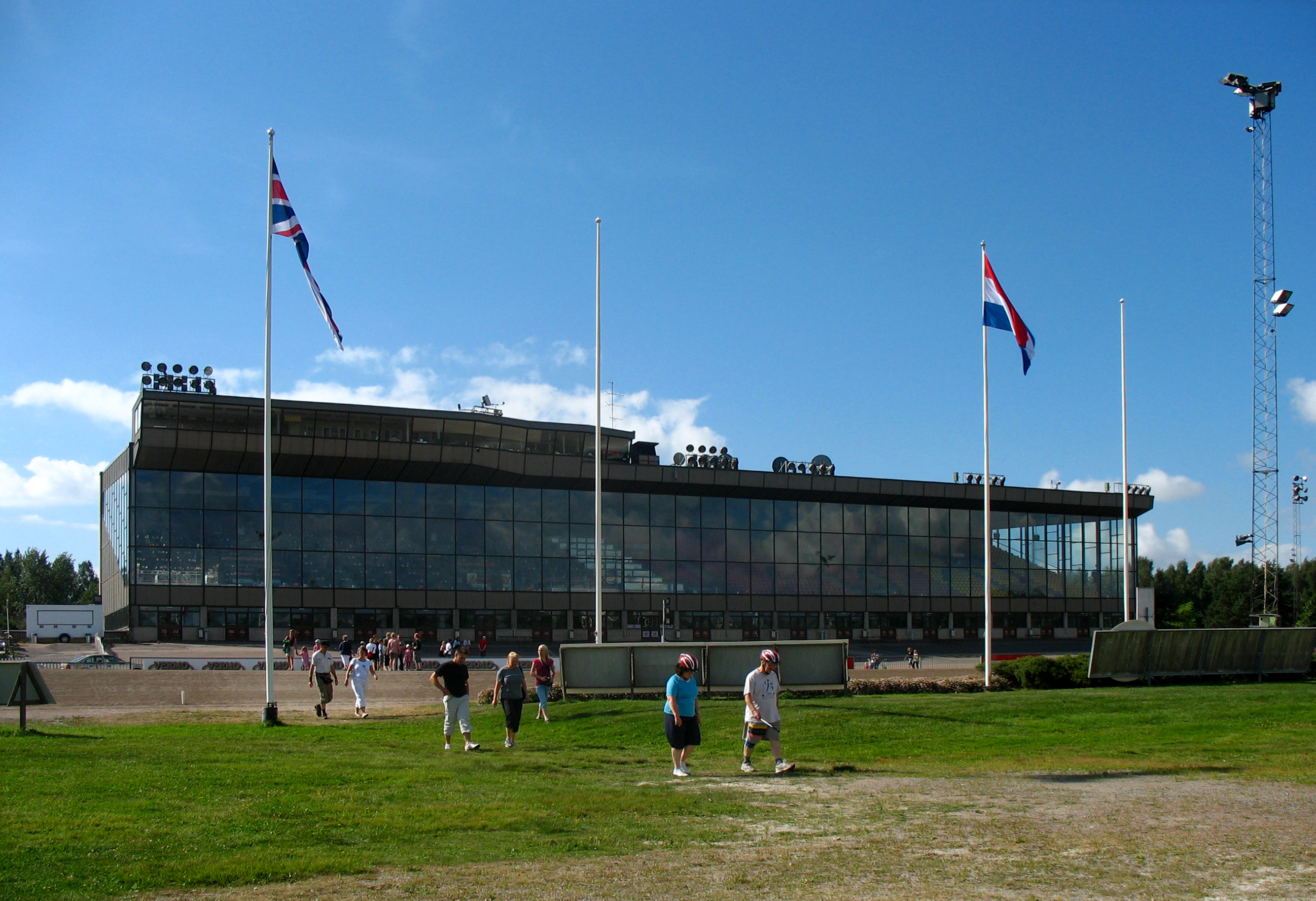 The main building of Vermo racetrack in 1.8.2010, during the Finnish National Pony Show.